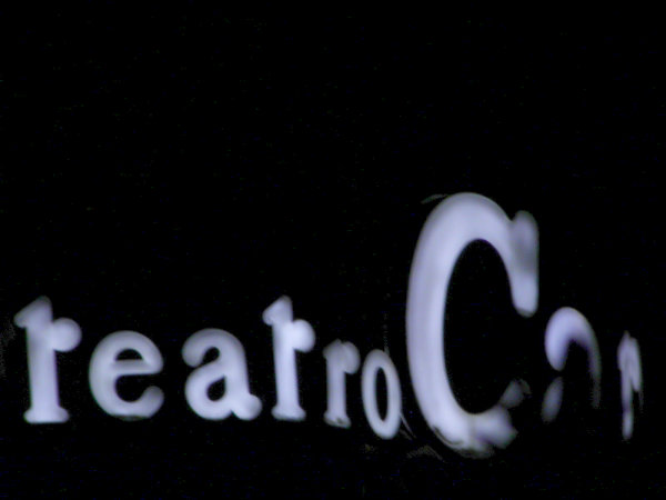 The sign above the entrance of Teatro Carcano at night. Milano, June 2004